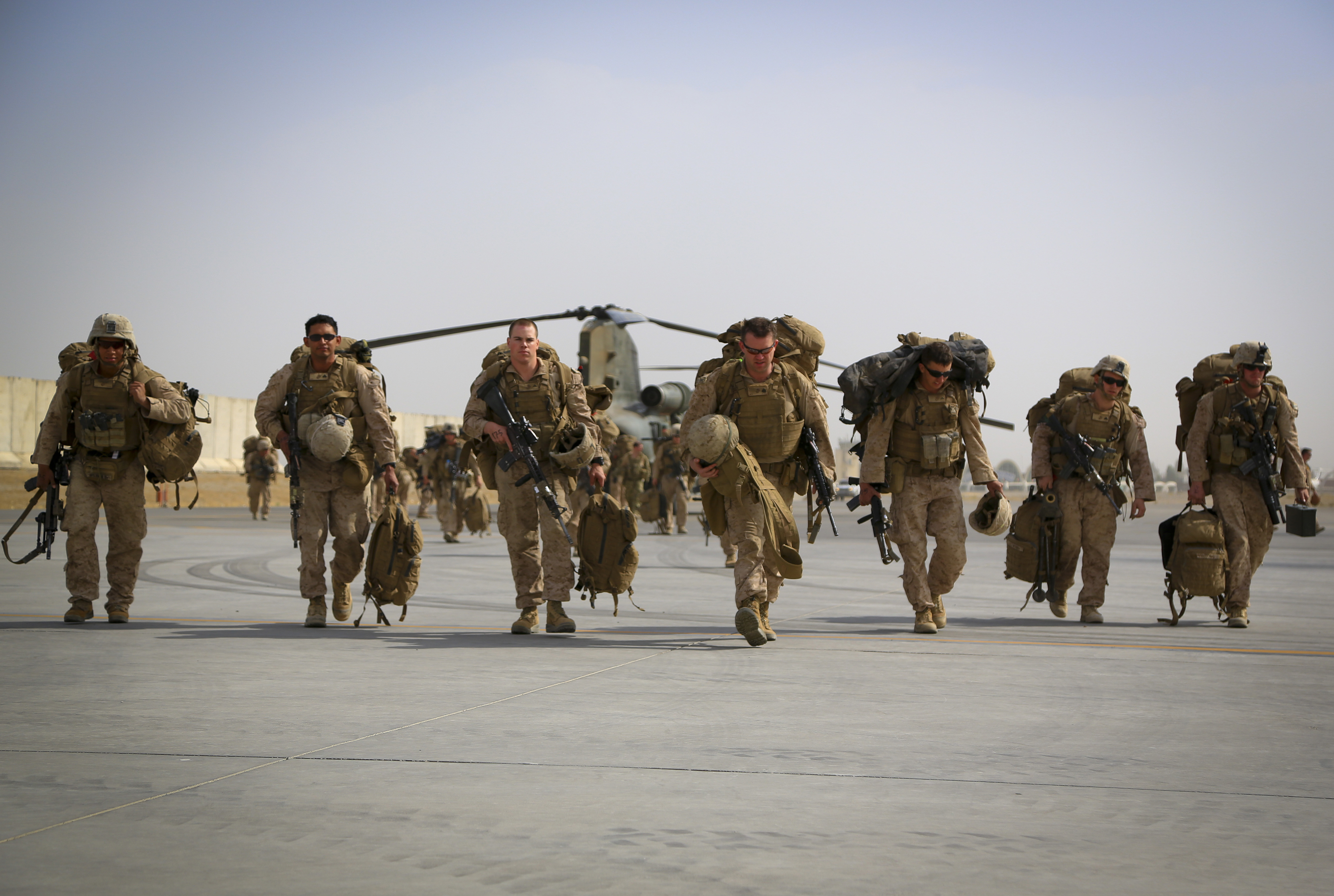 Marines with Regional Command (Southwest) (RC(SW)) exit a CH-46 Sea Knight helicopter aboard Kandahar Airfield (KAF), Afghanistan, Oct. 27, 2014. The Marines transitioned to KAF following the end of RC(SW) operations in Helmand province. (U.S. Marine Corps photo by Sgt. Dustin D. March/Released)